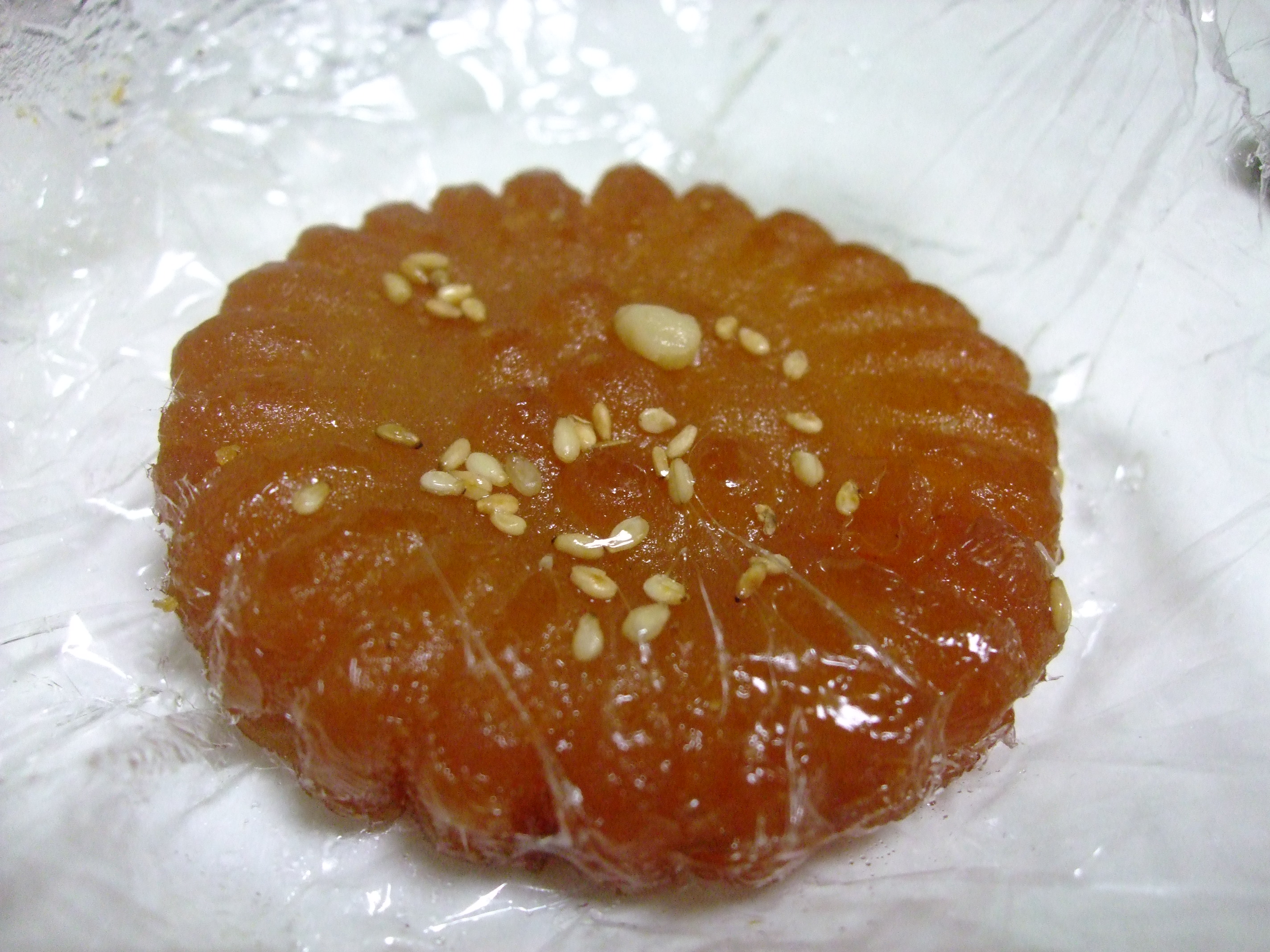 Yakwa